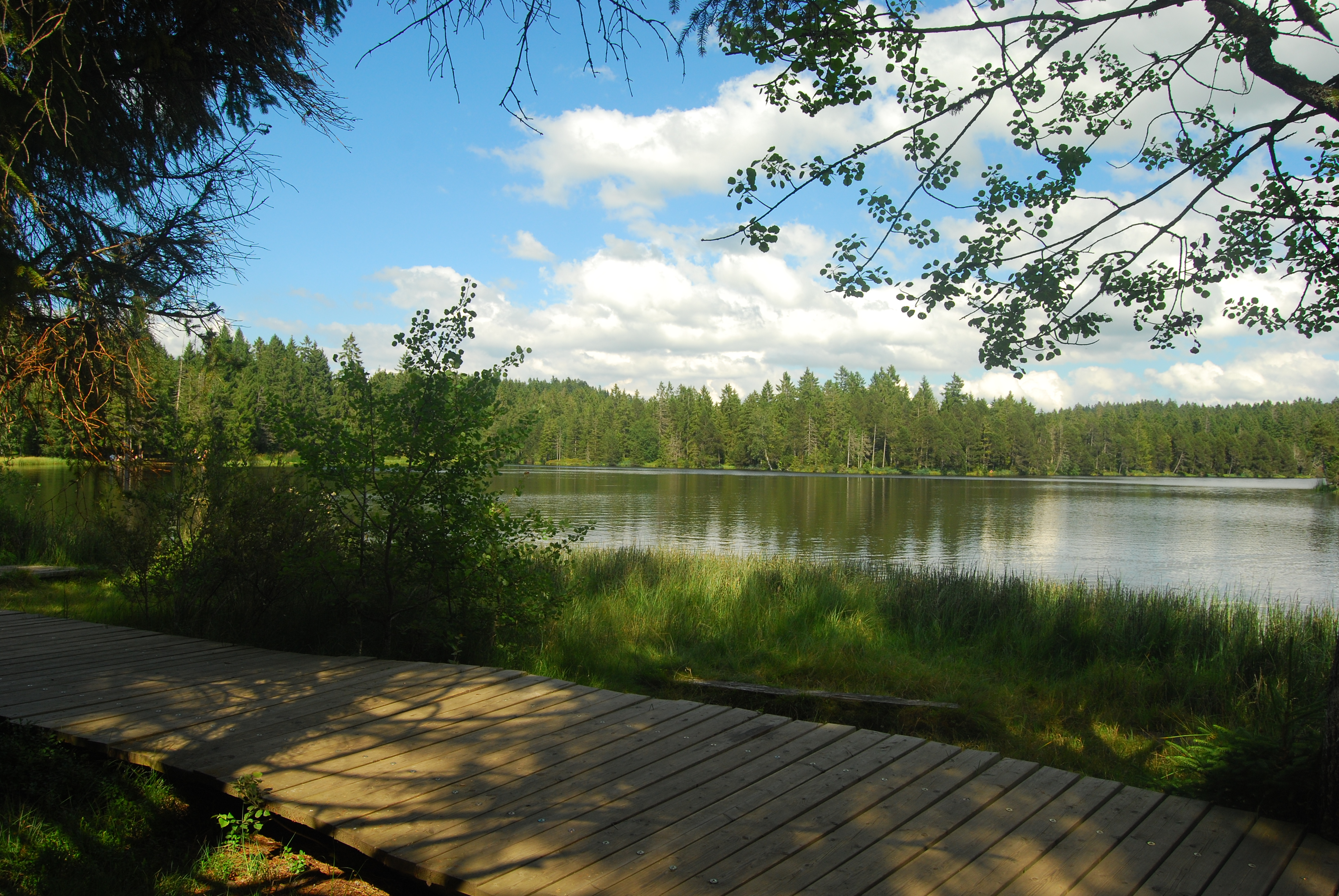 Etang de la Gruère at Saignelégier, canton of Jura, Switzerland